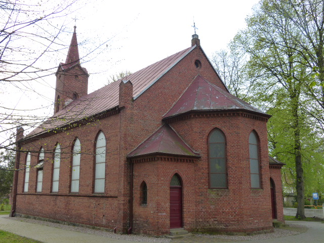 Saint Stanislaus Kostka church in Siemyśl, Poland